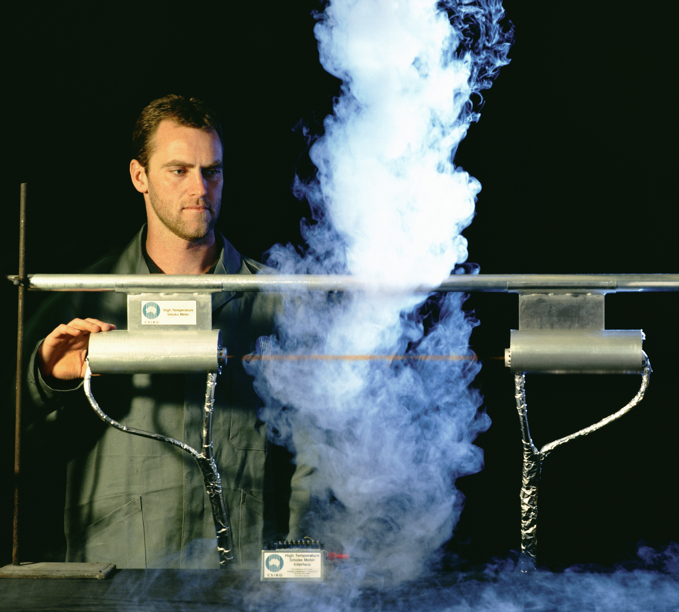 Smokemeter. Photo credit: Lawrence Cheung